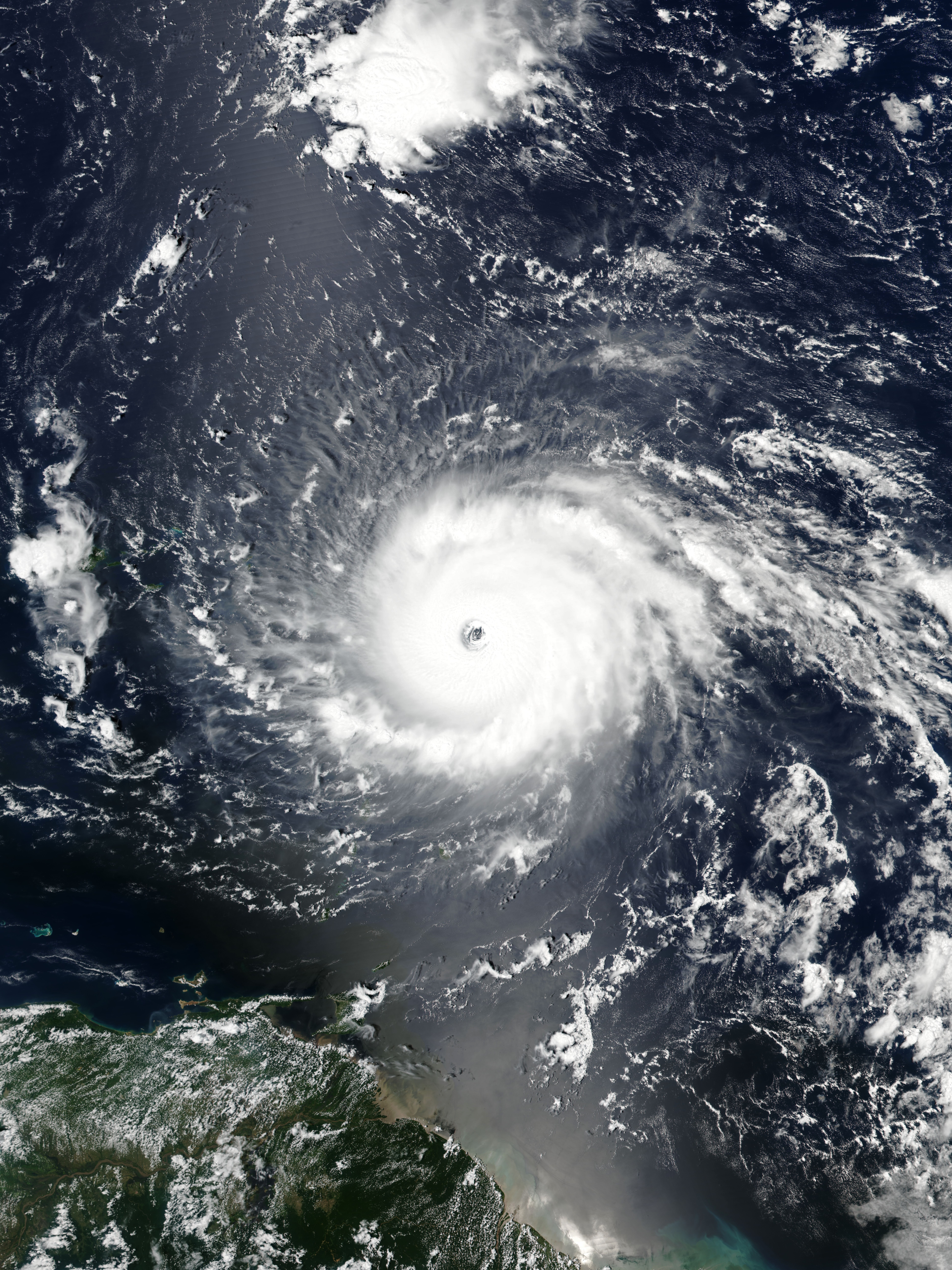 Hurricane Irma approaching the Leeward Islands at peak intensity on September 5, 2017 as the third most intense Atlantic hurricane on record in terms of sustained winds.